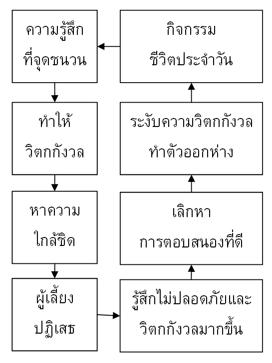 Attachment theory - anxious-avoidant attachment